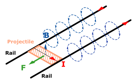 Projectile (rail) placed on elctric conductor is accelerated by its own magnetic field, using Lorentz force